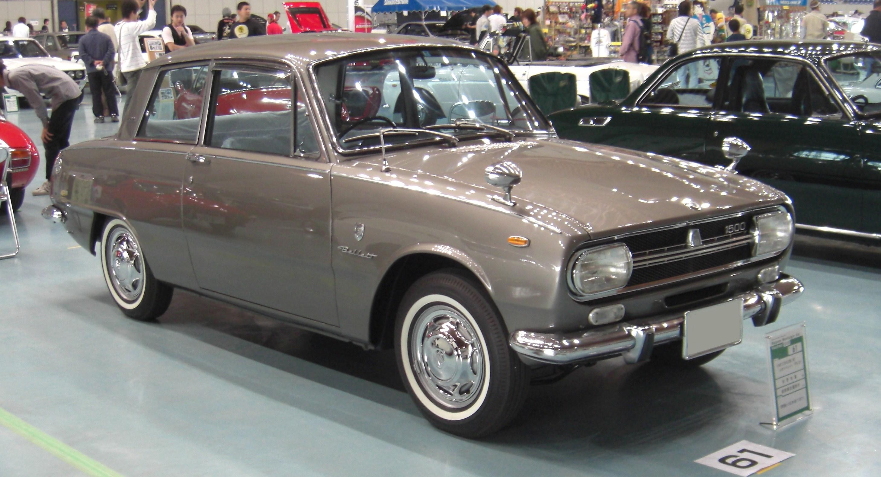 Isuzu Bellett